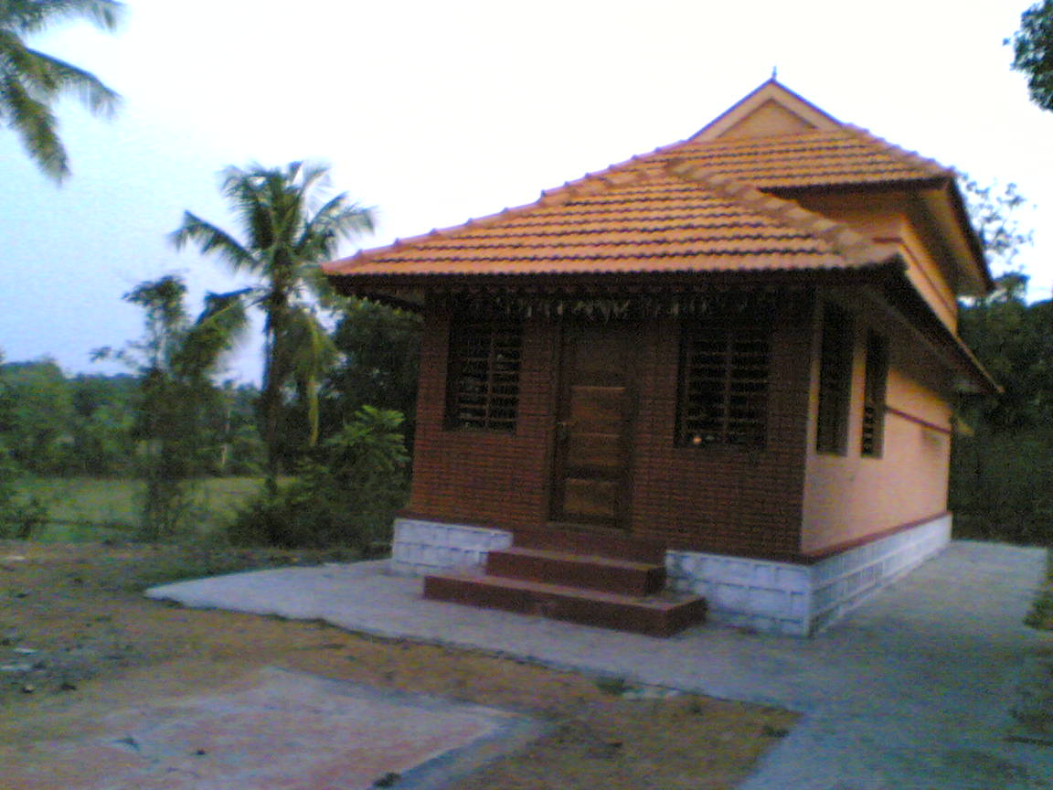 The file was entirely created by me the uploader